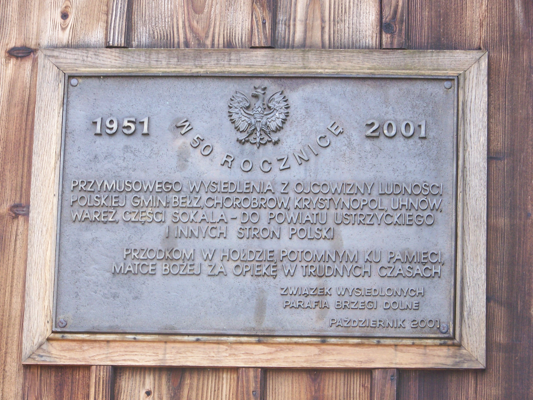 Plaque commemorating the 50th anniversary of the displacement of the population of village of Sokalszczyzna (now Lutowiska) located on the former Greek Catholic church in Brzegi Dolne.